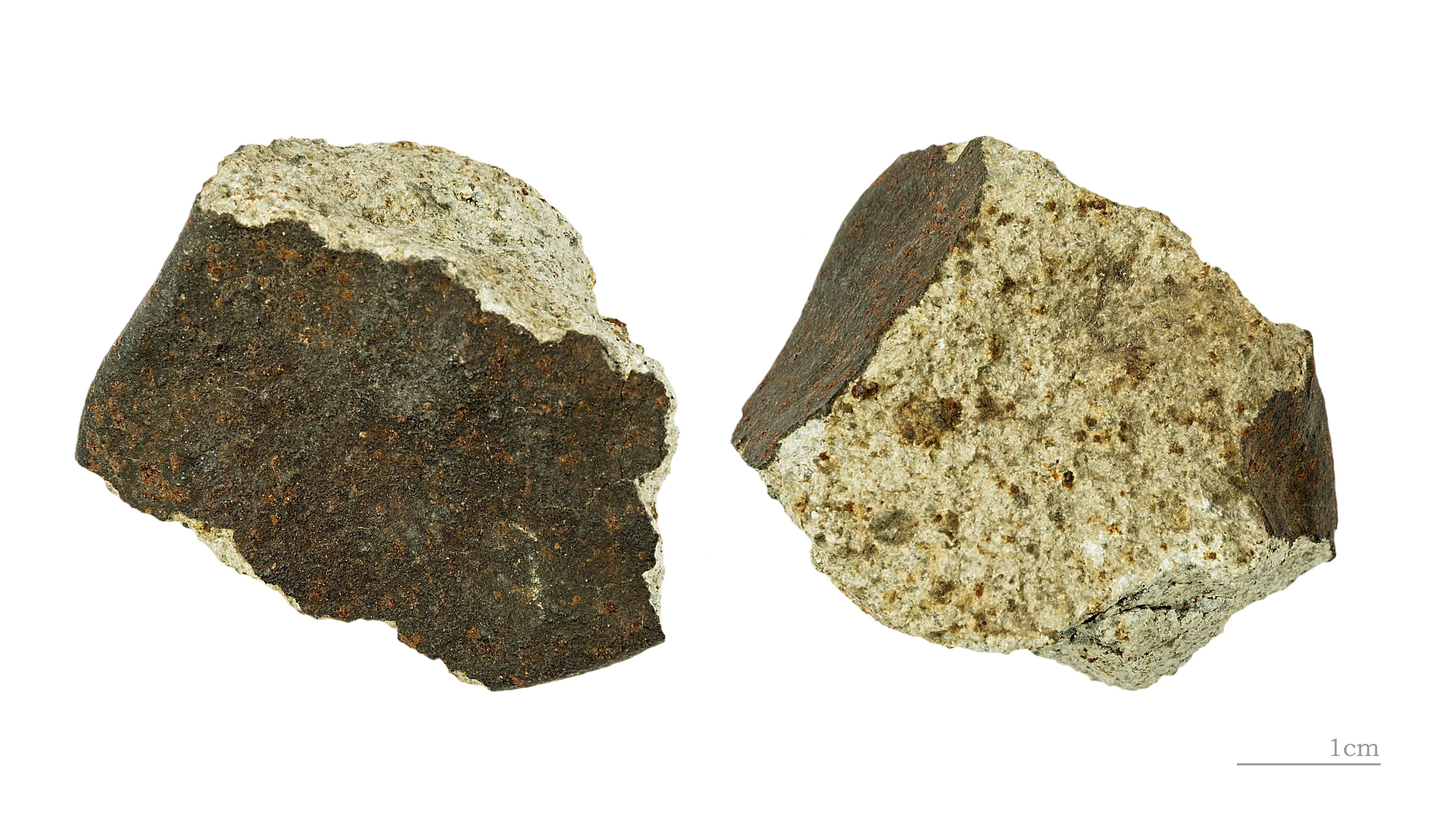 Pnompehn meteorite, Chondrite L6. Fell in 1868, into 3 pieces. Two views of same specimen.